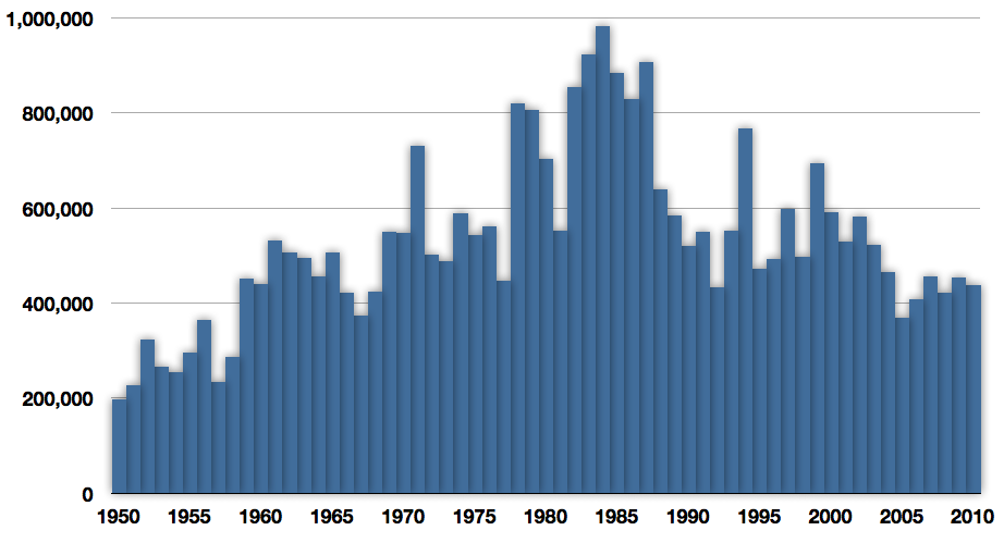 Global fisheries capture of the Gulf menhaden, Brevoortia patronus, from 1950 to 2010 as reported by the FAO. Data source FAO fisheries